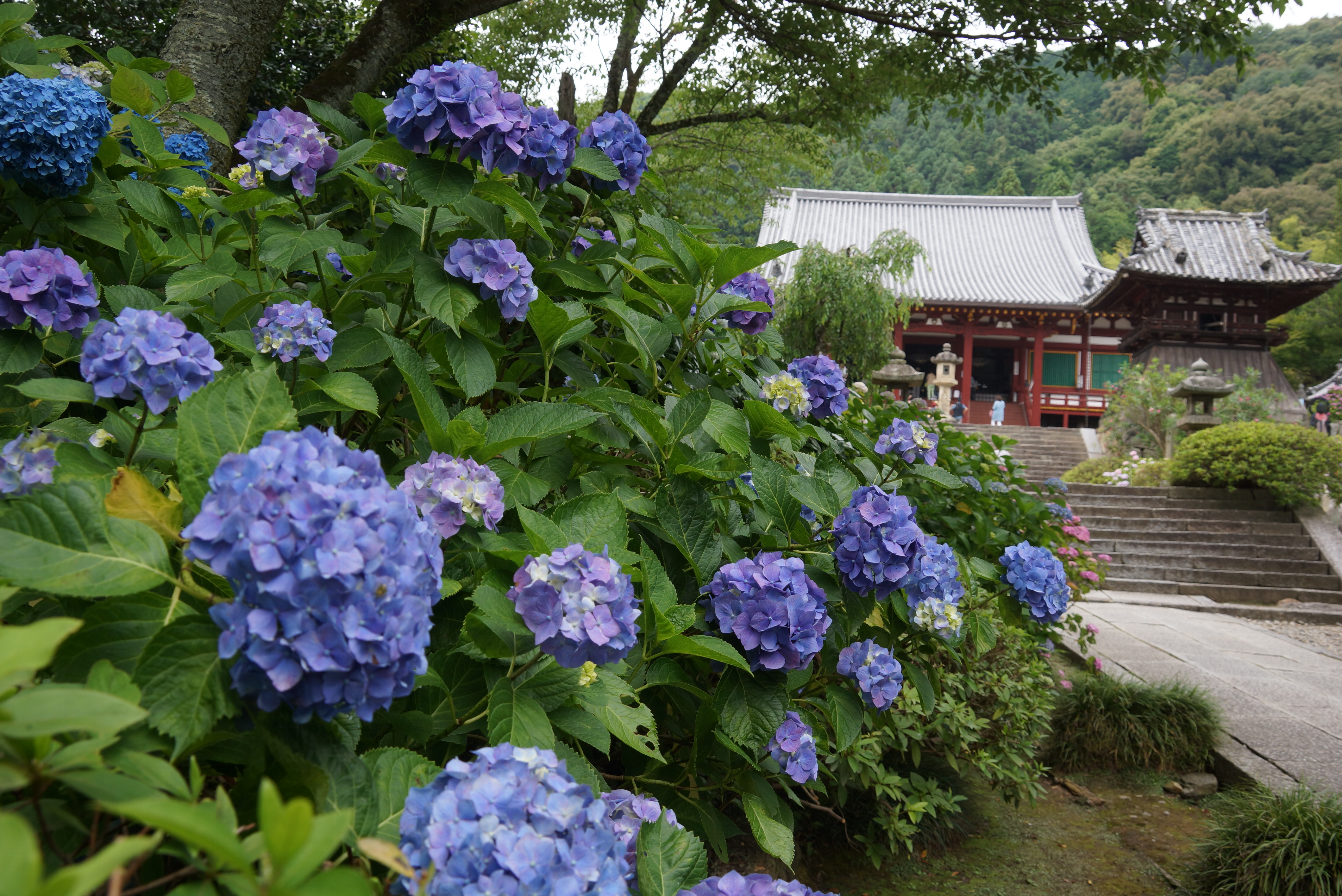 Hydrangeas at Yatadera Temple